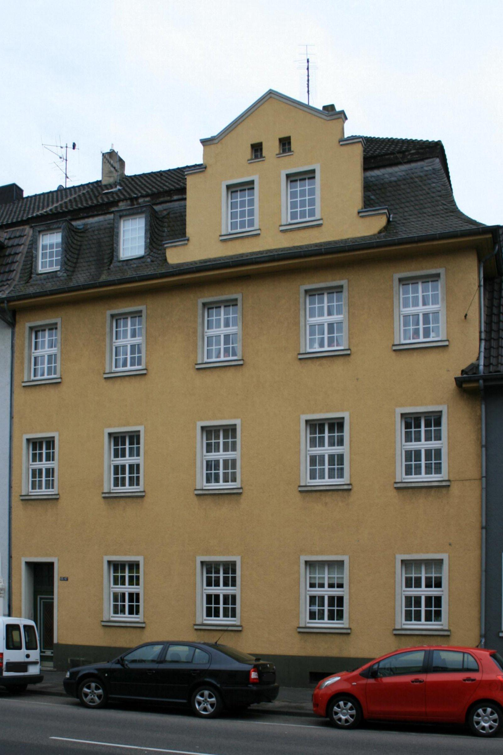 Cultural heritage monument No. V 019 in Mönchengladbach